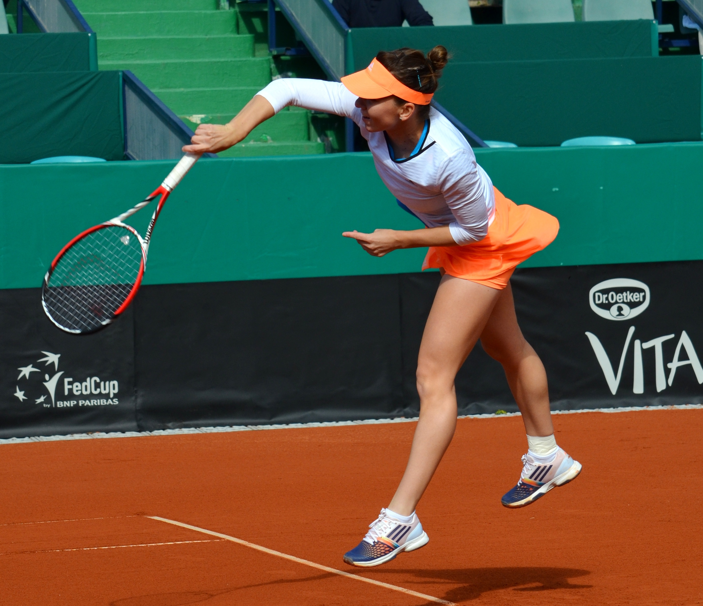 Simona Halep during the match Romania – Serbia (4-1) in the frame of 2014 Fed Cup World Group II Play-offs (Bucharest, April 20, 2014). Simona Halep, a Romanian professional tennis player, is currently ( June 2014) ranked as number 3 in the Women's Tennis Association (WTA) hierarchy.